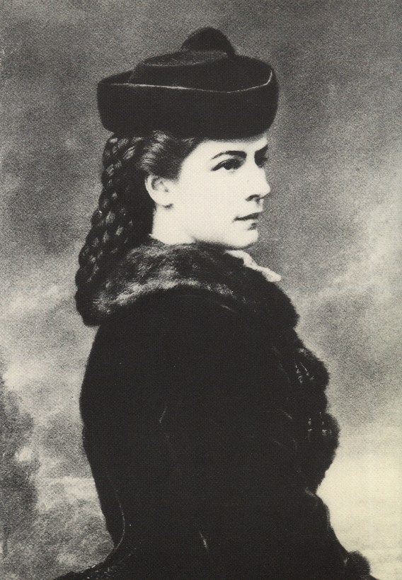 Portrait of Empress Elisabeth of Austria (1837-1898)